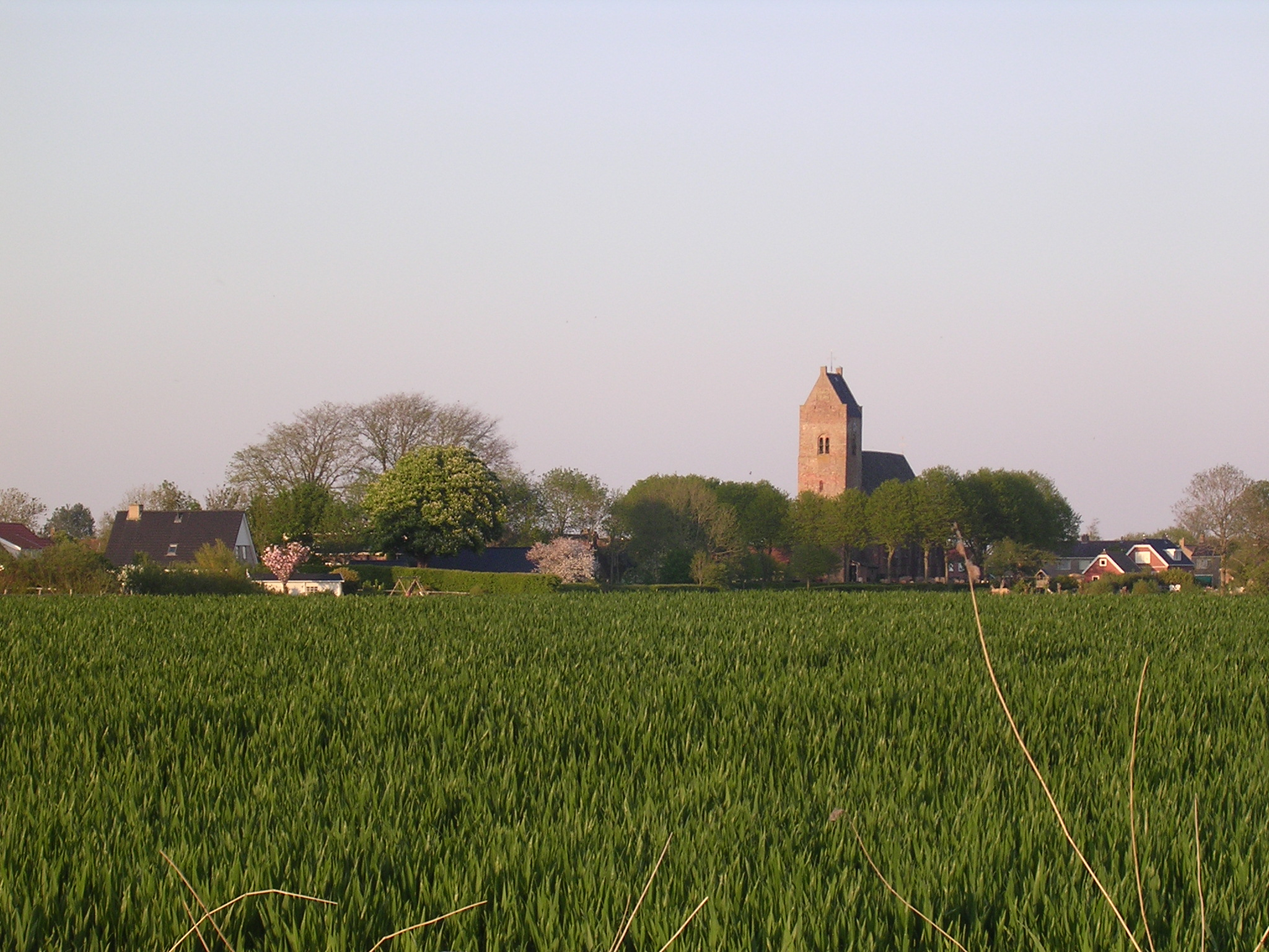 the village of Blije in the municipality Ferwerderadiel, Friesland, the NetherlandsFrysk: it doarp Blije yn Ferwerteradiel